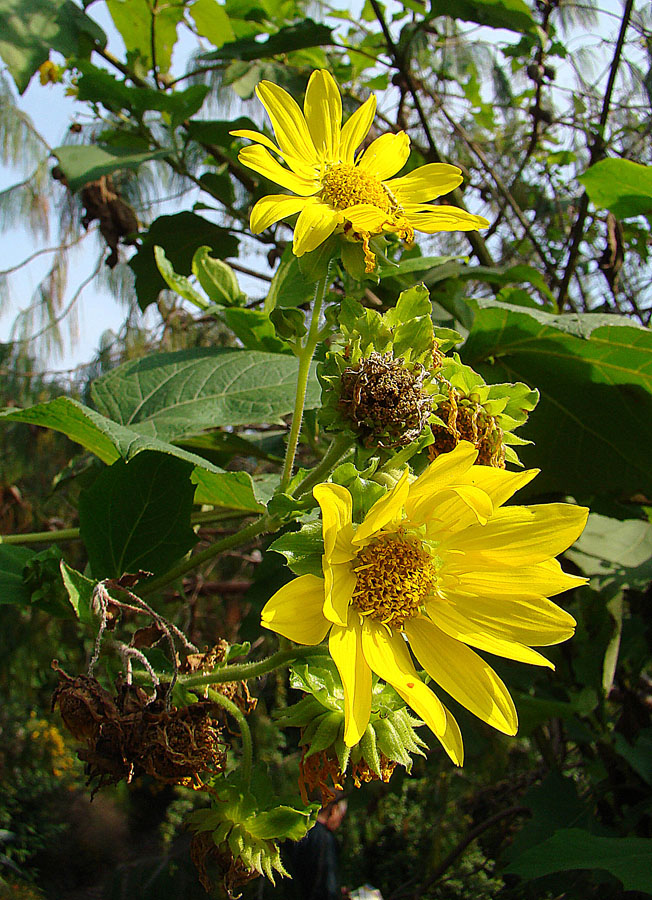 Native from Central Mexico to Panama. UC Berkeley Botanical Gardens. In context at